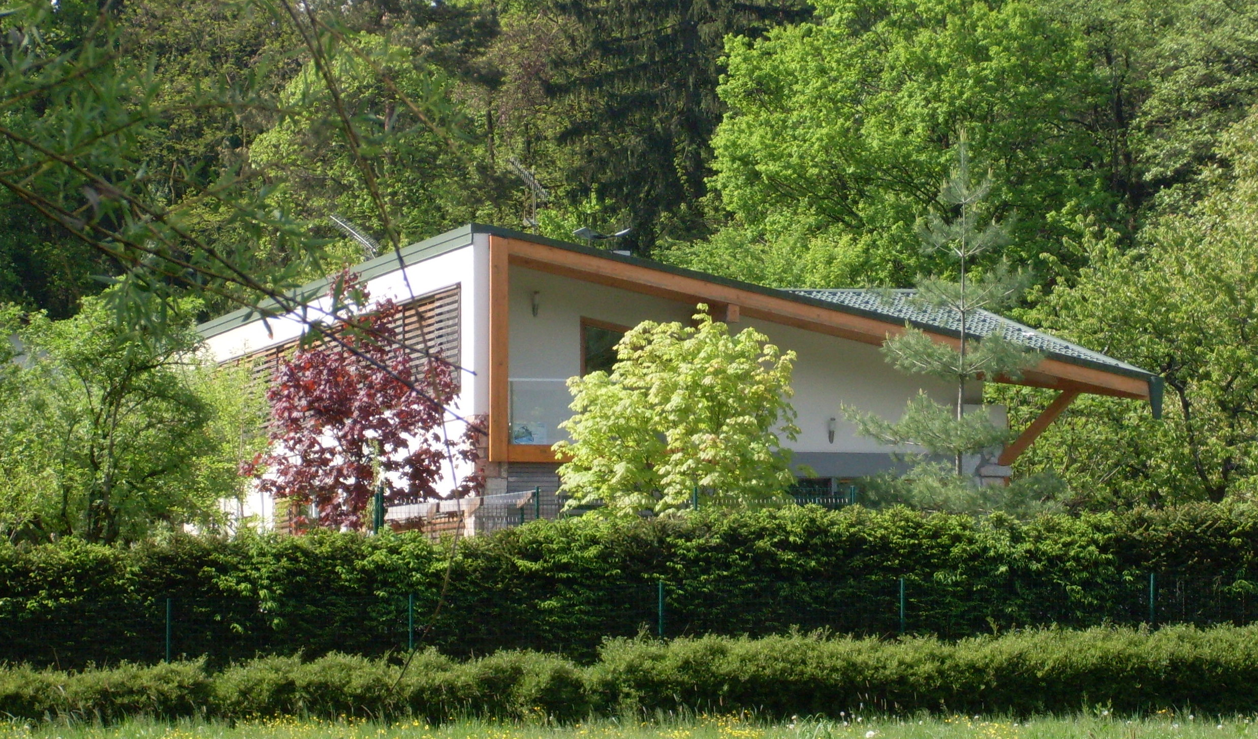 Building of the former train station "Jelenov Žleb" in Koseze (district of Ljubljana), along the former "Pioneer railroad", current address: Koseška cesta 30